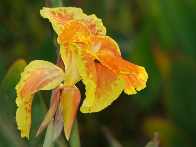 The yellow Canna Indica, also called as Indian Shot I guess.